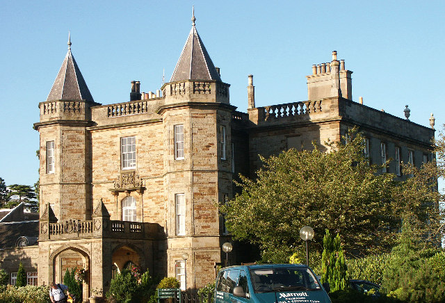 Dalmahoy. Dalmahoy Golf and Country Club. ...... "Scuze me! I'd like a beer and a sandwich?" "Certainly, Sir." "Would you like fries with that?" "Oh yes please, how much will that be?" "That'll be about a grand." Kerrrrchingggg!